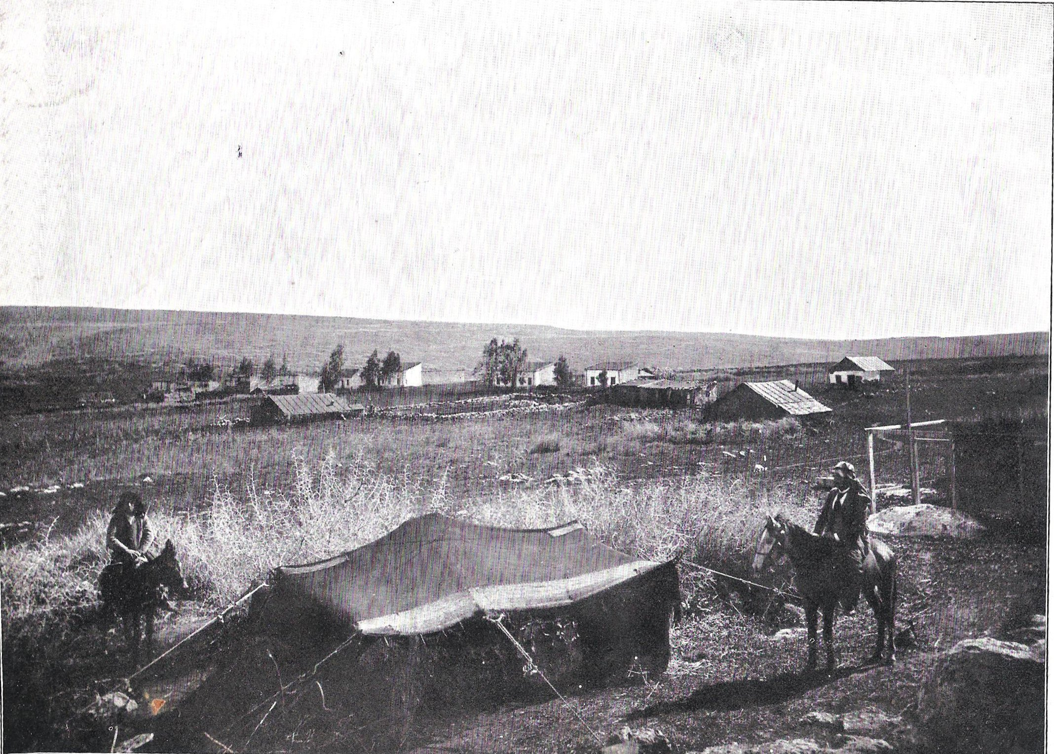 The picture are from old book (that was published in 1899), some of the picture are fro 1899, some are even older: This work or image is now in the public domain because its term of copyright has expired in Israel. According to Israel's copyright statute from 2007 (translation), a work is released to the public domain on 1 January of the 71st year after the author's death (paragraph 38 of the 2007 statute) with the following exceptions: A photograph taken on 24 May 2008 or earlier — the old British Mandate act applies, i.e. on 1 January of the 51st year after the creation of the photograph (paragraph 78(i) of the 2007 statute, and paragraph 21 of the old British Mandate act). If the copyrights are owned by the State, not acquired from a private person, and there is no special agreement between the State and the author — on 1 January of the 51st year after the creation of the work (paragraphs 36 and 42 in the 2007 statute). See also category: PD Israel & British Mandate. For the scan and the the crop: The name of the book (in hebrew) is: "מראה ארץ ישראל והמושבות" by (in hebrew): "ישעיהו ראפאלוביטש ושותפו משה אליהו זאכס" Mishmar HaYarden